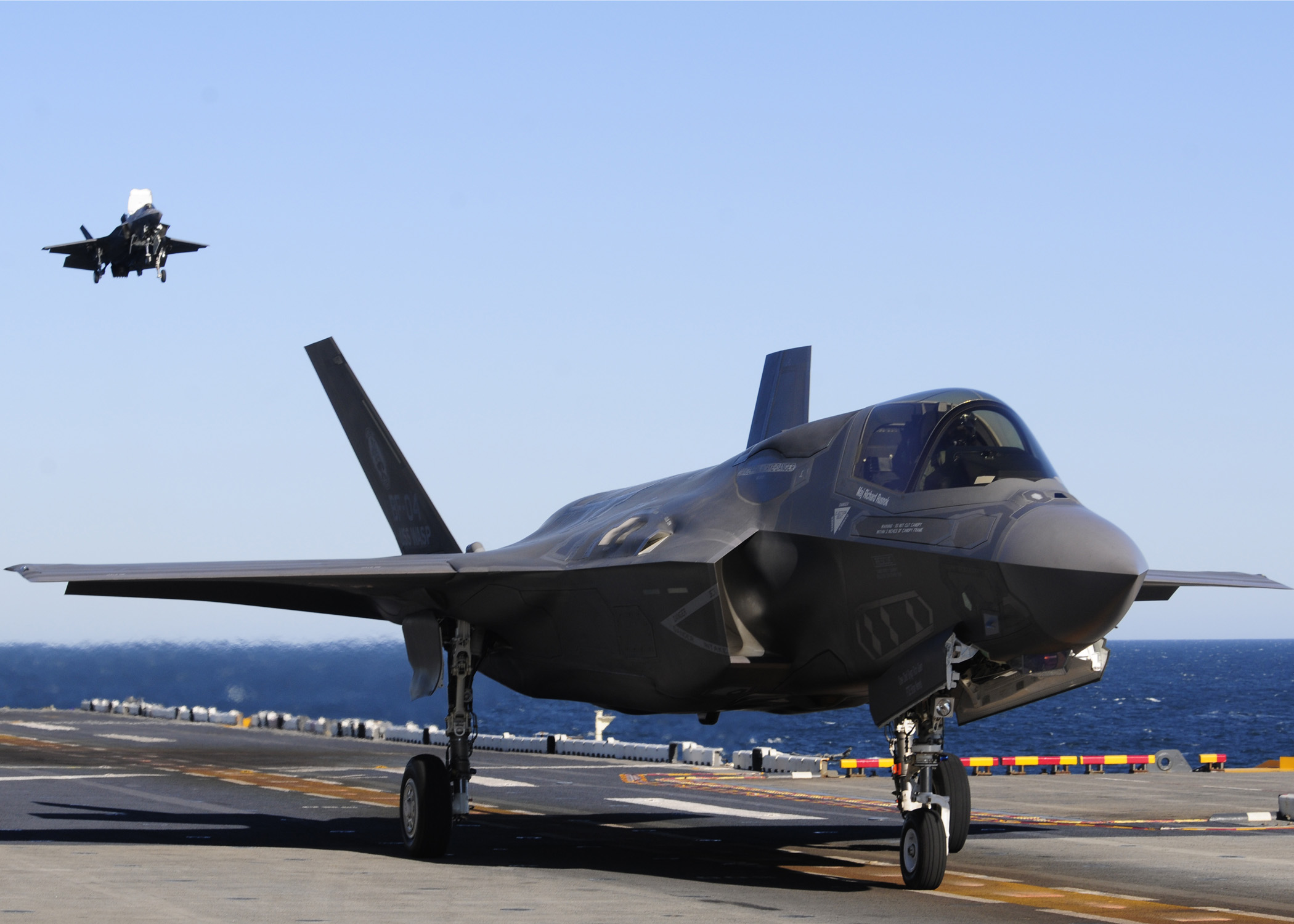 A F-35B Lighting II maneuvers after a vertical landing as the other variant approaches the flight deck for landing on the amphibious assault ship USS Wasp (LHD 1) on day thirteen of sea trials.